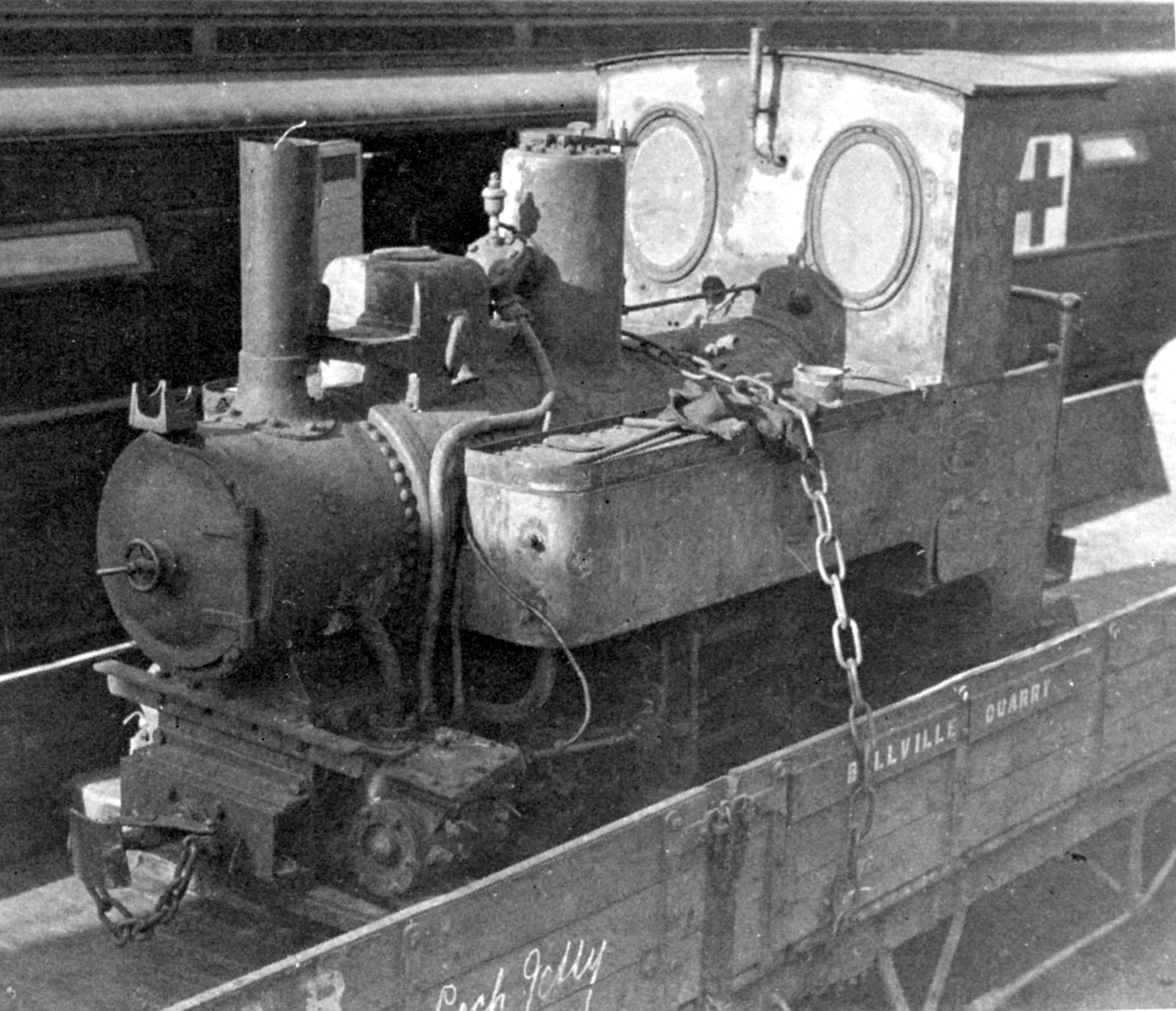 SAR Zwillinge no. 169B (0-6-0T) Location: Bellville Quarry, Cape Town